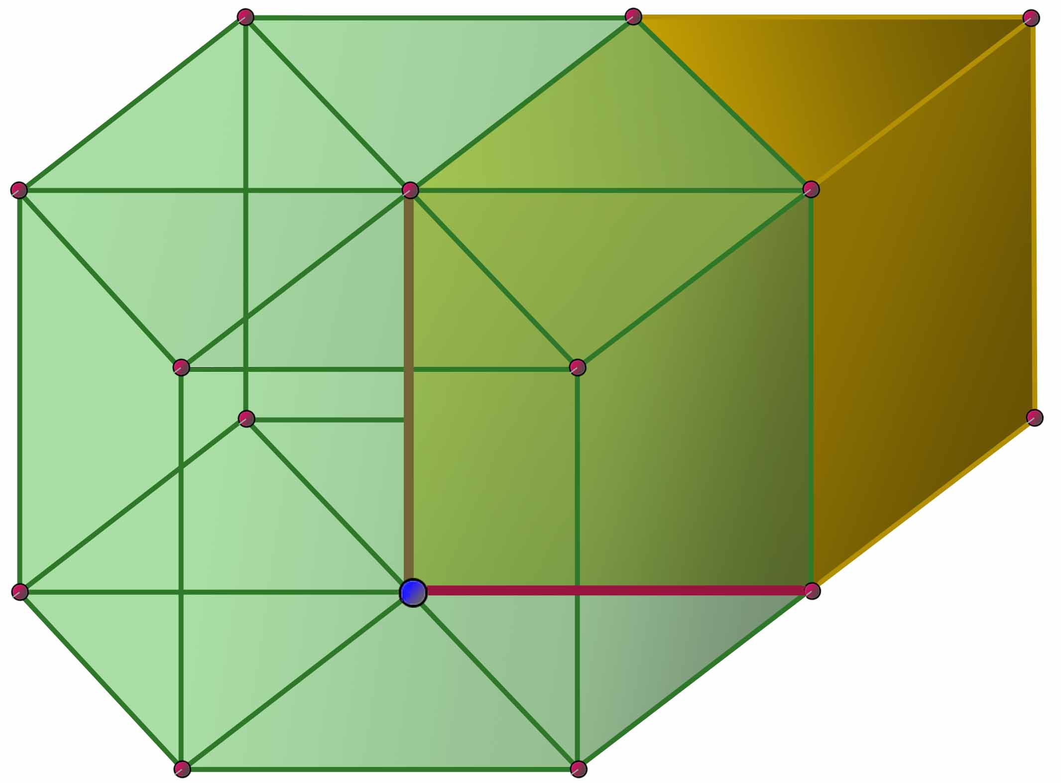 Hexagonal crystal structure